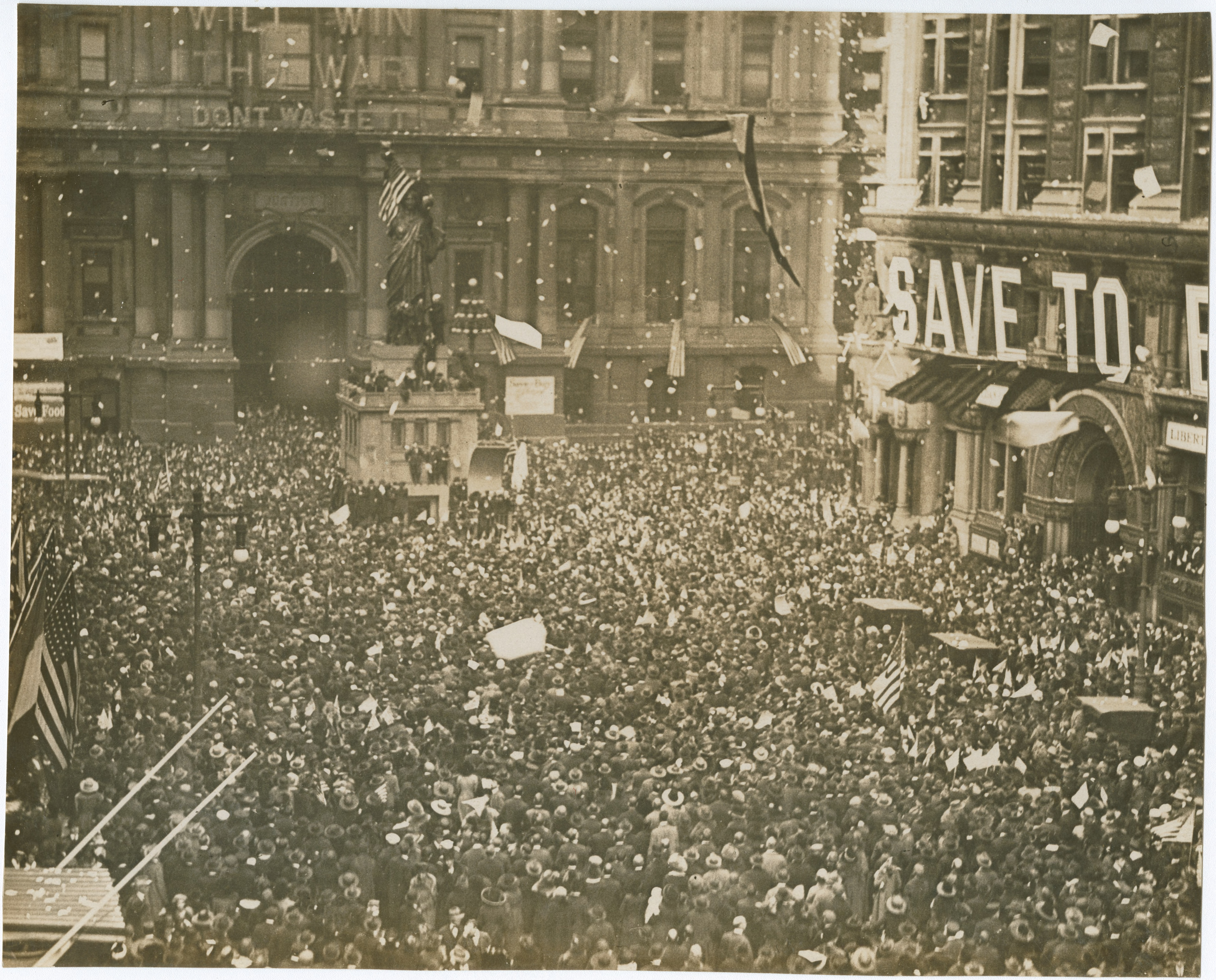 World War I-era photographs shows crowds filling streets surrounding City Hall in celebration of Armistice Day, November 11, 1918. Photograph shows replica Statue of Liberty, which was unveiled on April 6, 1918 during the Third Liberty Loan drive. Accession Number: 7066.Q.34